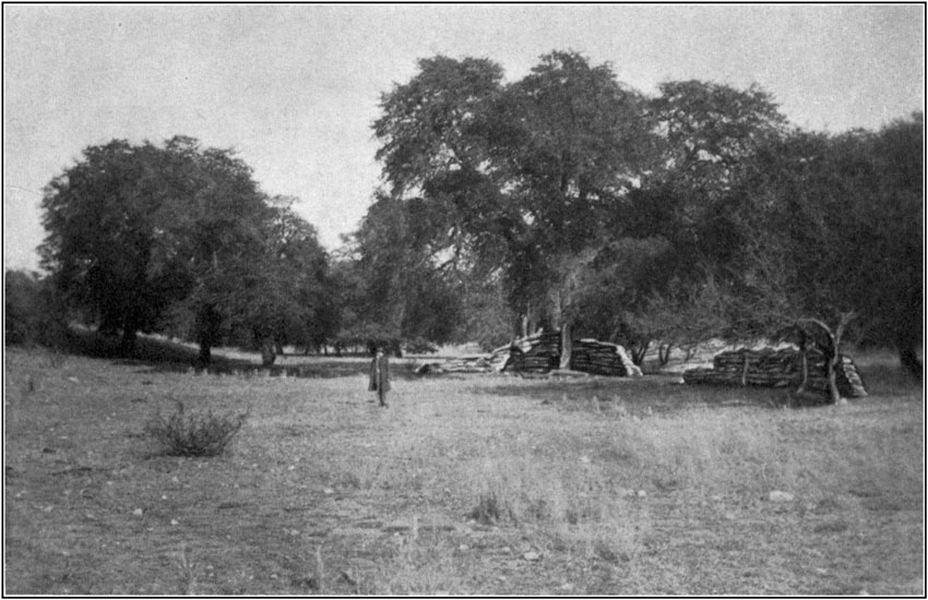 John H. Cady at the ruins of Fort Buchanan in Arizona, 1914.